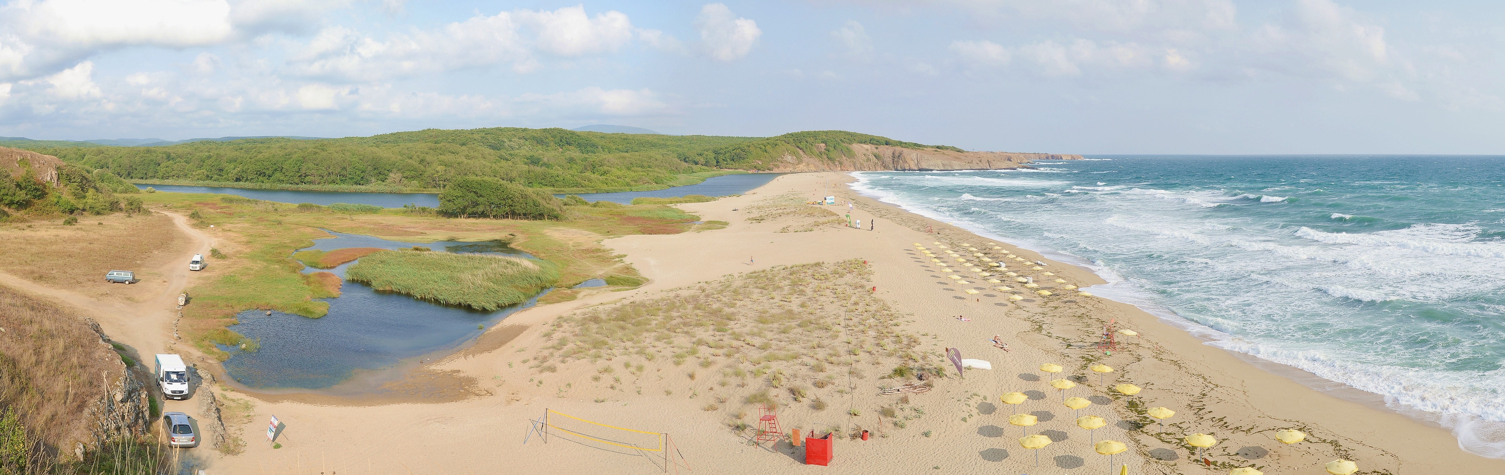 Sinemorec, Bulgaria - beach near Veleka river